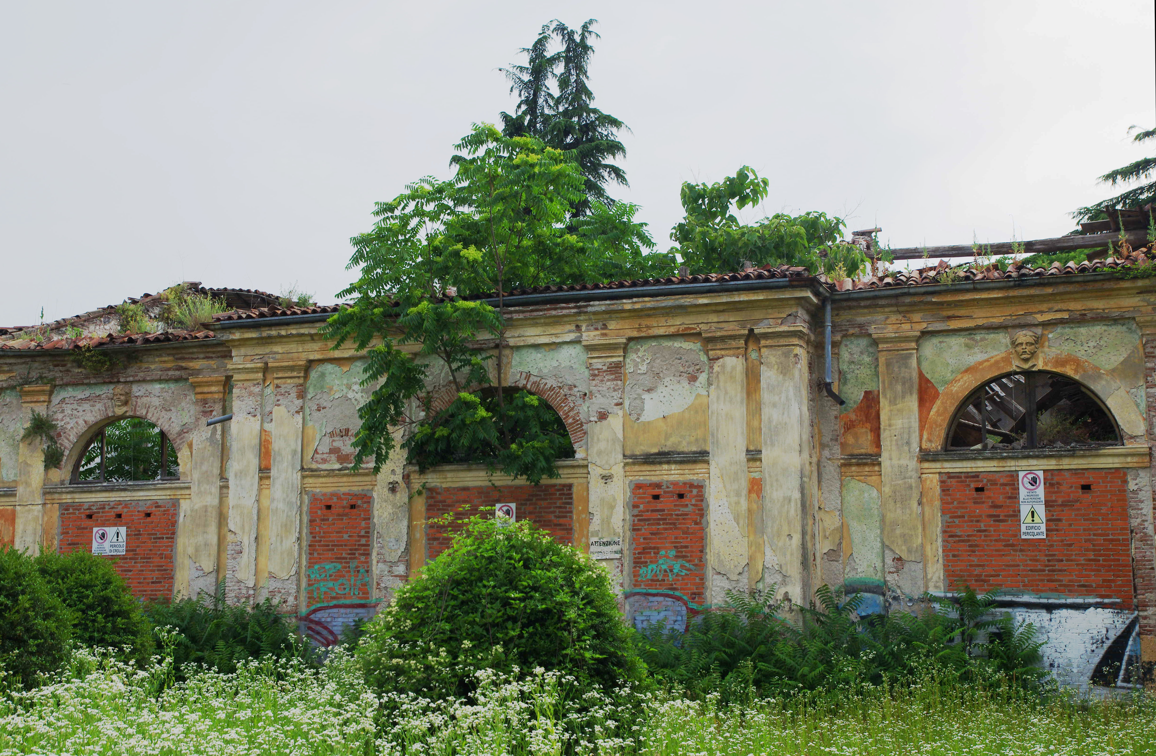 Typical example of mismanagement of the Italian cultural heritage, now being restored after decades of neglect